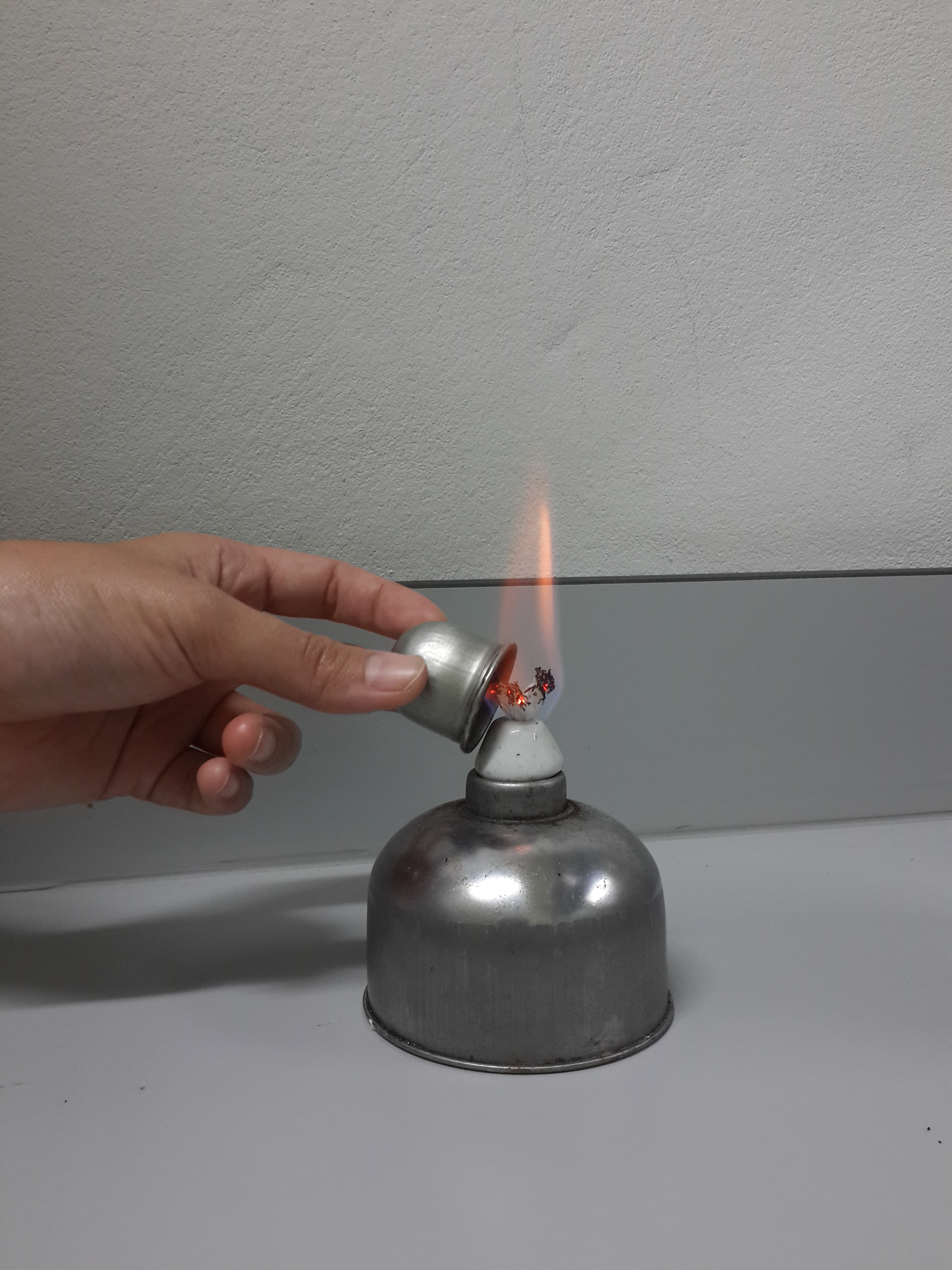 Capping the alcohol burner